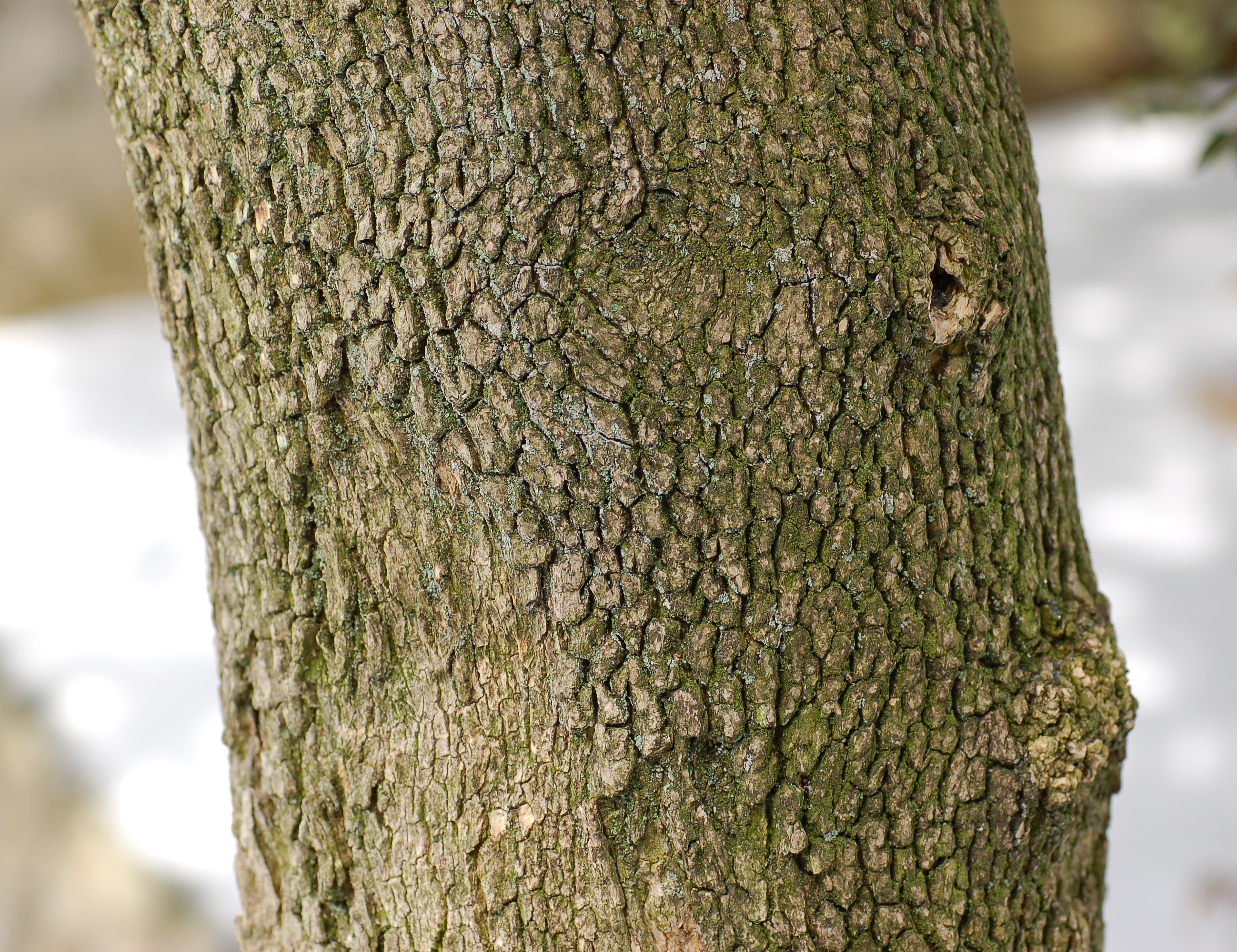 Photograph of the Boxwooden (Buxus sempervirens en var. arborescens). Photo taken at the Tyler Arboretum where it was identified.